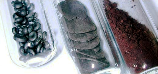 black, grey and red Selenium